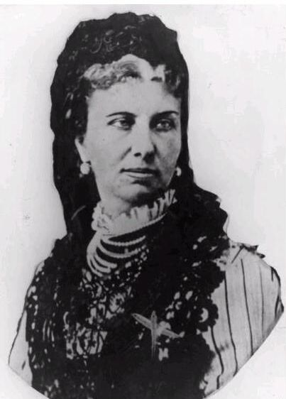 Princess Marie Dorothee Elisabeth Radziwill (1840-1914), wife of Prince Frederic Guillaume Antoine Radziwill, French-German leader of society